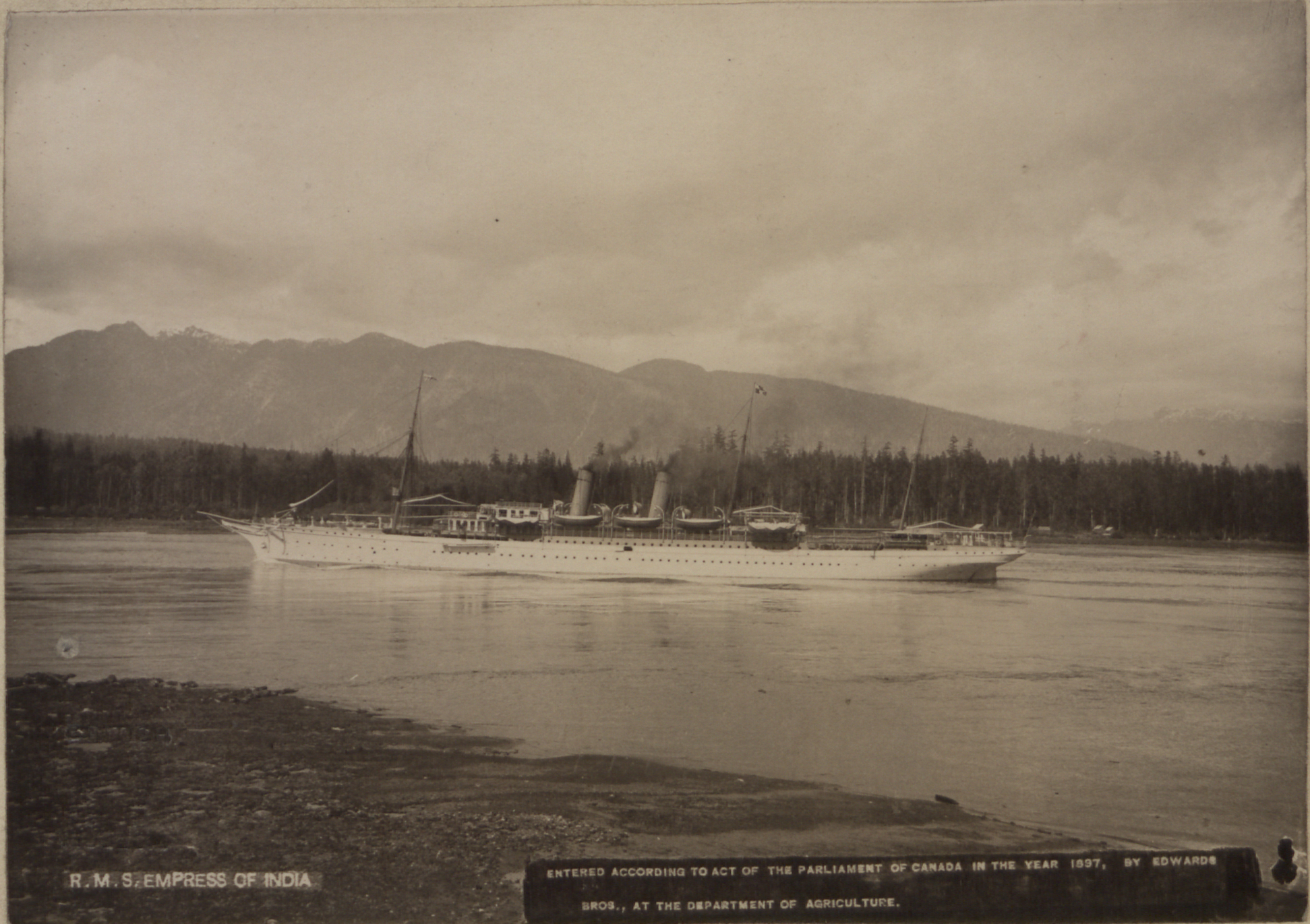 R. M. S. "Empress of India". Port beam view of the 'Empress of India' under way in an unidentified inlet.